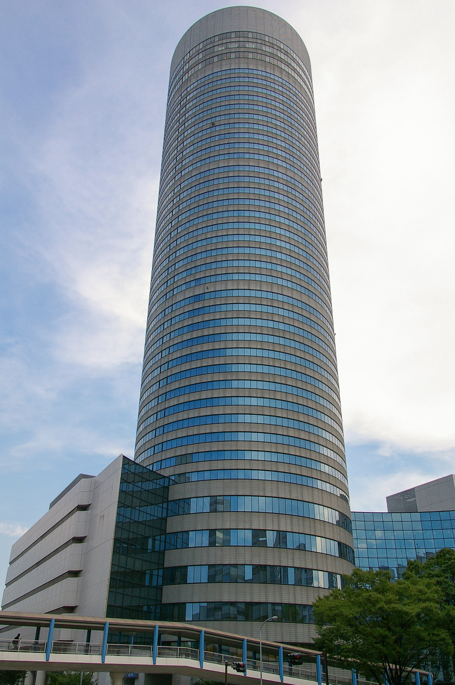 Photograph of the northwest view of Shin Yokohama Prince Hotel in Kohoku-ku, Yokohama, Kanagawa Prefecture, Japan.